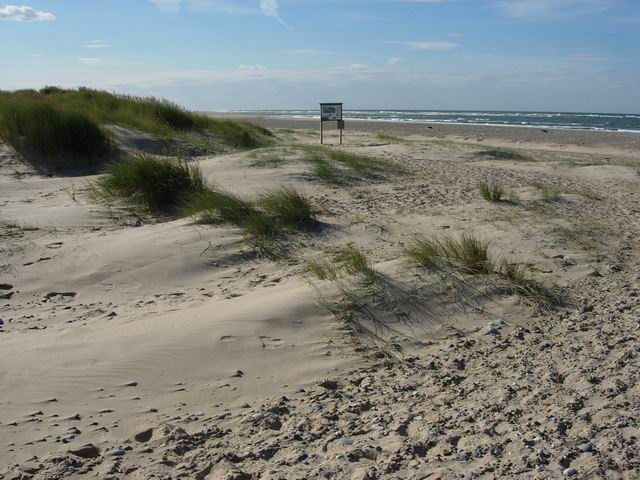 Embryo dunes There were strong northerly winds this day (the sea was calming down by this point) and they had created streamlined piles of sand in the lee of the vegetation. If the marram grass growth keeps pace with this deposition, and more sand is trapped than blown away, a dune ridge forms.